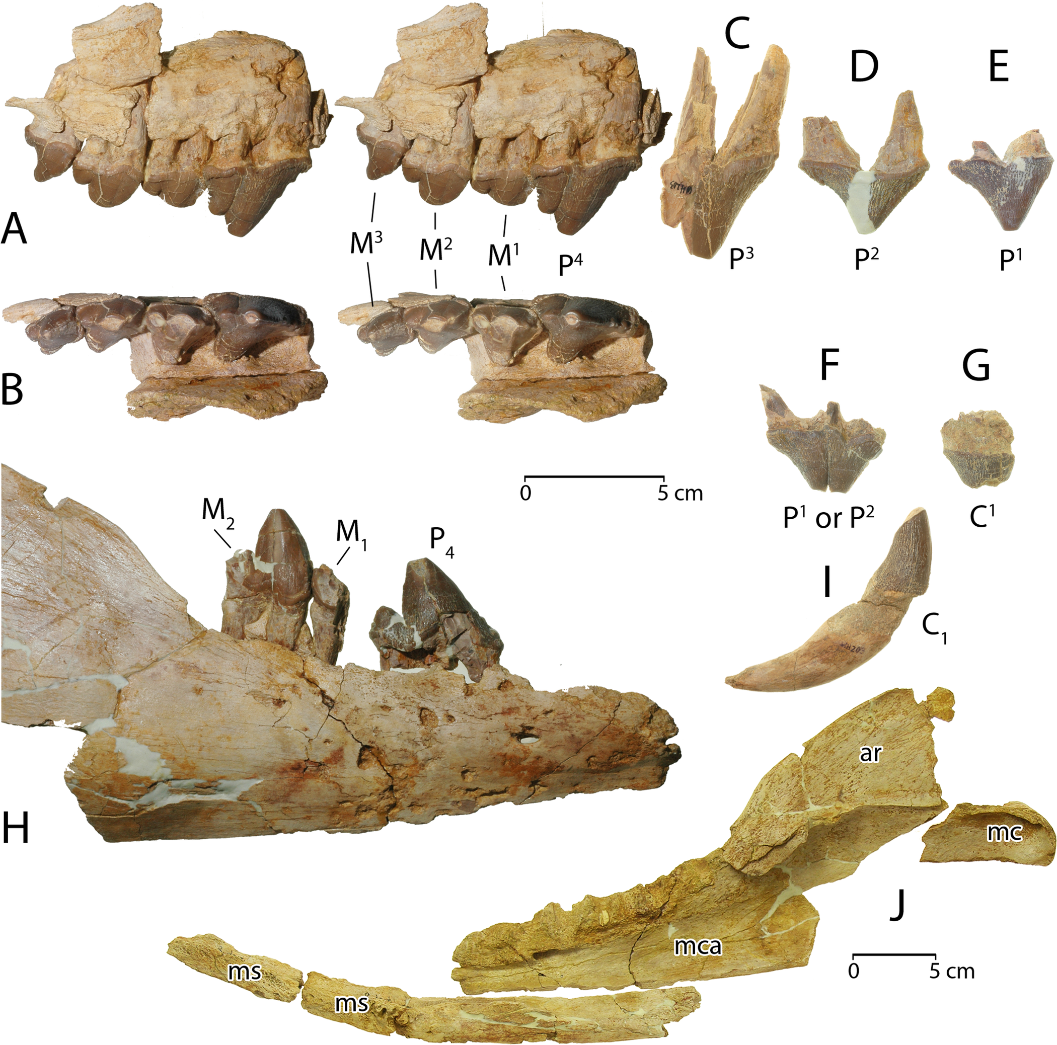 Aegicetus, dental elements, type specimen of Aegicetus gehennae (CGM 60584); A and B: right maxilla with P4 and M1-3 in right and lateral (A) and occlusial view (B), stereophotograph; C: right P3; D; right P2; E: right P1; F: teratological left P1 or P2; G: right C1; H: partial right dentary with P4, M1 talonid, and M2 in right lateral view; I: right lower canine C1; J: right dentary as preserved without teeth, in four pieces, in left medial view (reduced scale); Abbreviations: ar = ascending ramus; mc = mandibular condyle; mca = mandibular canal; ms = mandibular symphysis; Upper Eocene, Wadi Al Hitan, Egypt